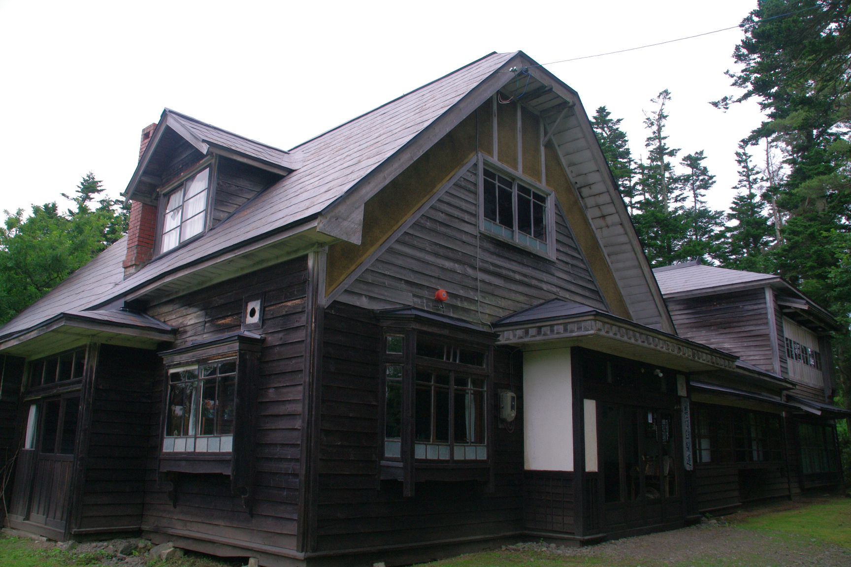 Bekkai town Okuyukiusu ekitei.